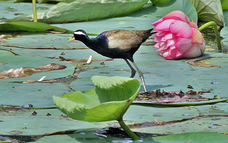 Bronze-winged Jacana Metopidius indicus in Kolkata, West Bengal, India.